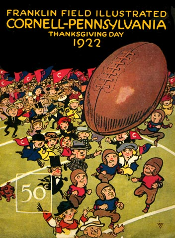 Program from the Cornell-Penn football game in November 1922.